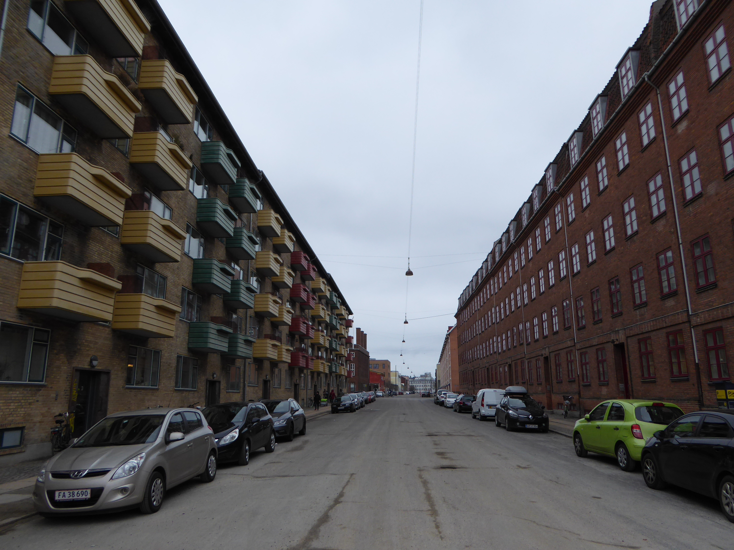 The street Sigurdsgade in Nørrebro in Copenhagen.